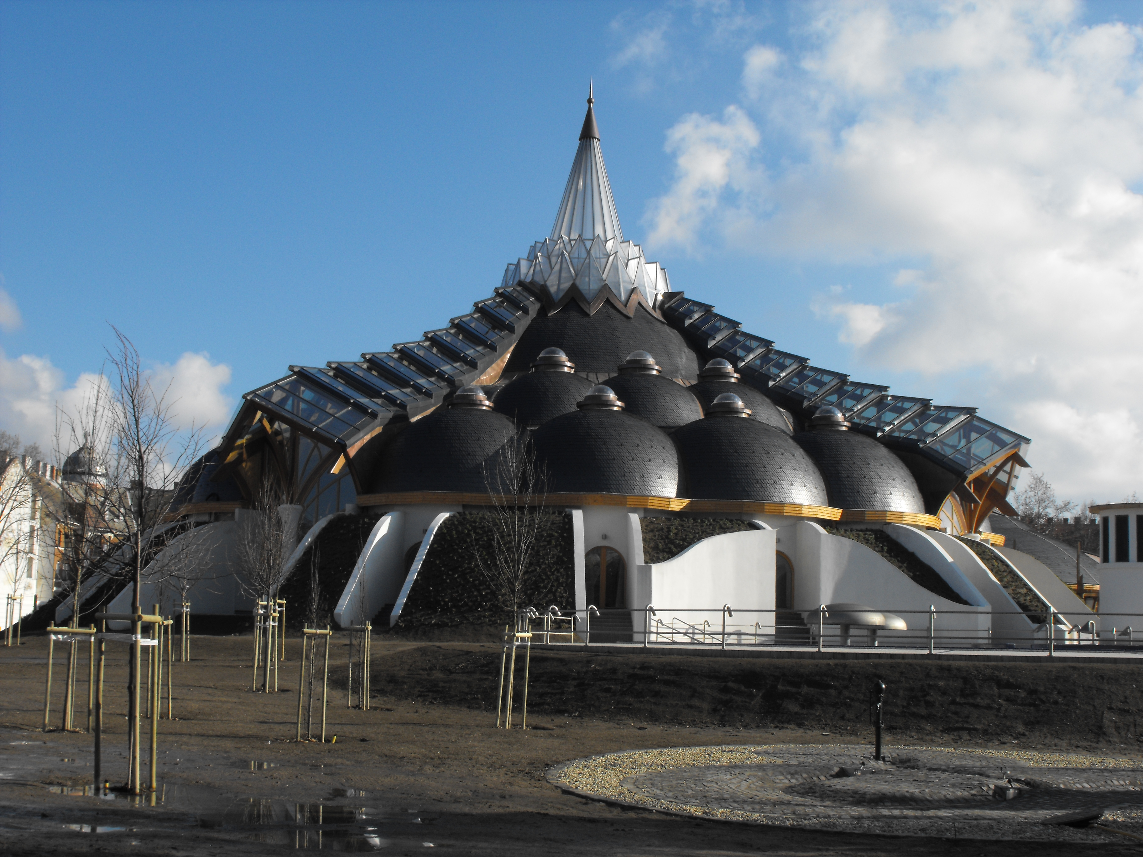 Makó Thermal Spa, a building designed by world-famous architect Imre Makovecz.